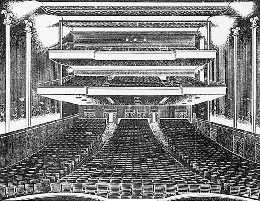 Sketch of the audience of Cine Morocco (1951)